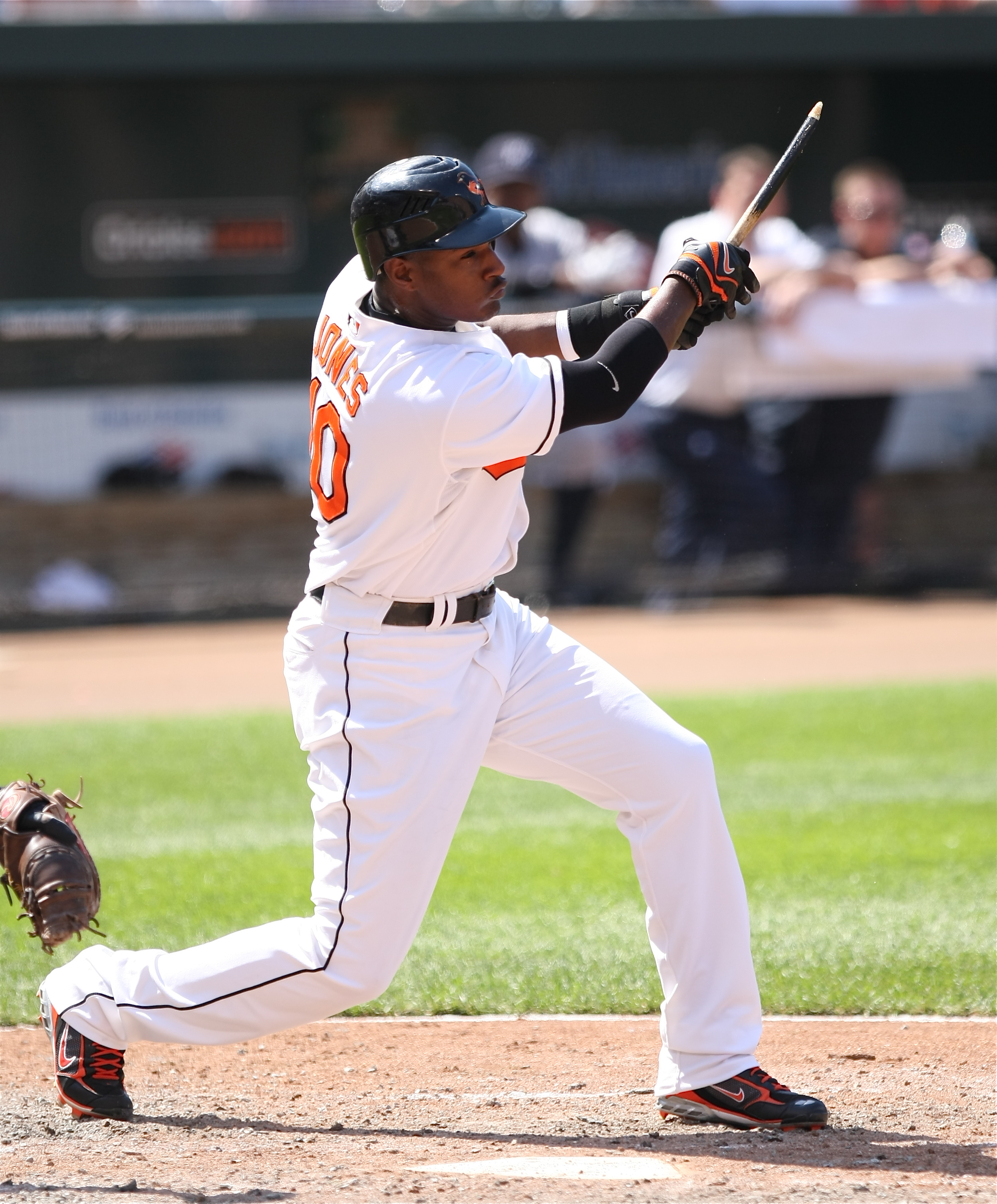 An image of Baltimore Orioles player Adam Jones with a broken bat after swinging at a pitch in 2008.